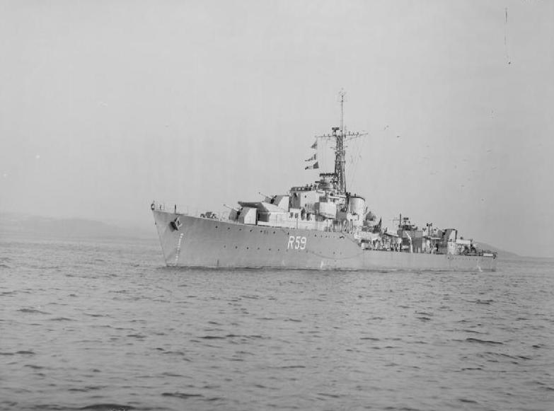 Photograph of British destroyer HMS Wakeful.